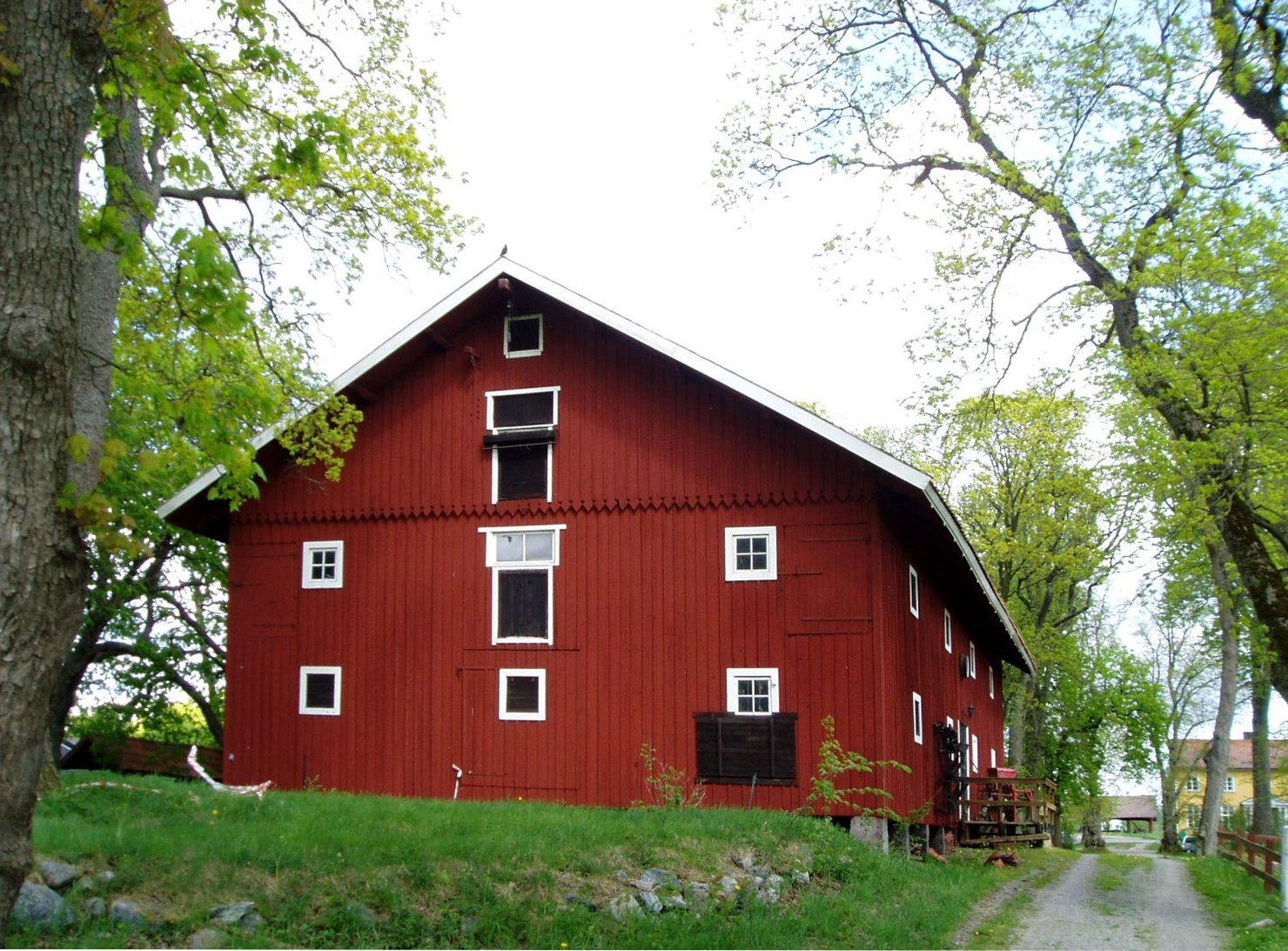 School for agriculture, Haninge municipality, Sweden